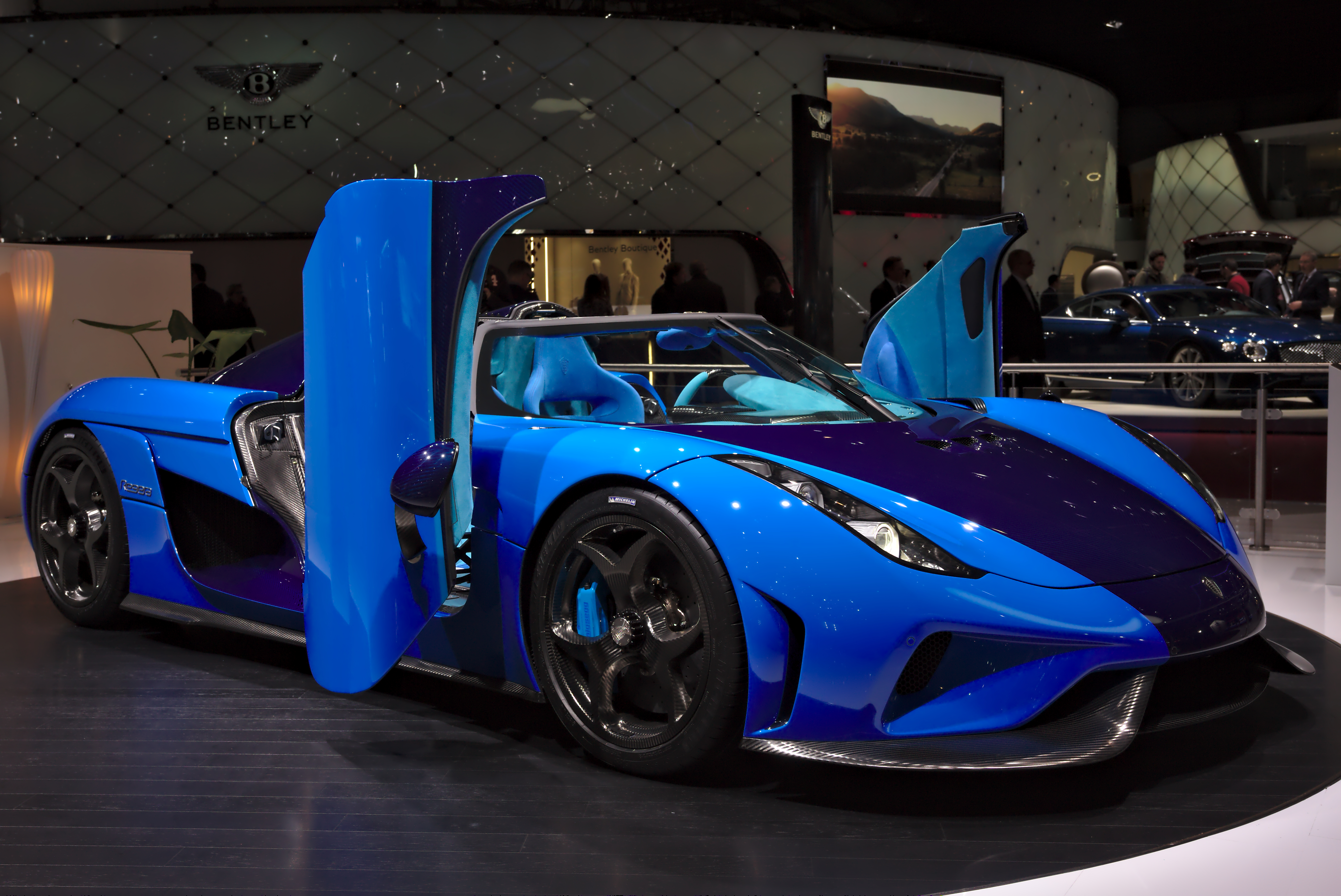 Koenigsegg Regera at Geneva Motorshow 2018